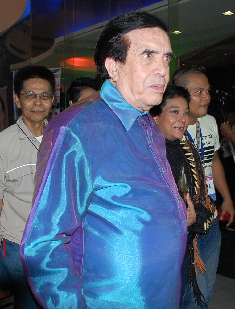 Close shot of Nora Aunor [1] & German Moreno [2] during her arrival at the Ninoy Aquino International Airport on August 10, 2011 taken by me using Nikon D40 on August 10, 2011.